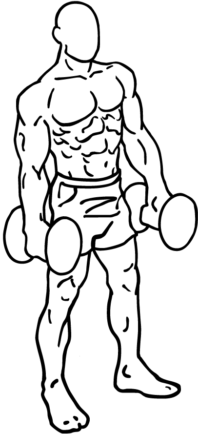 an exercise of traps